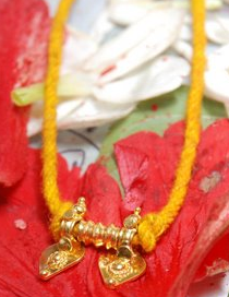 Pushpaka Thali - necak ornament of married women of Pushpaka Brahmins